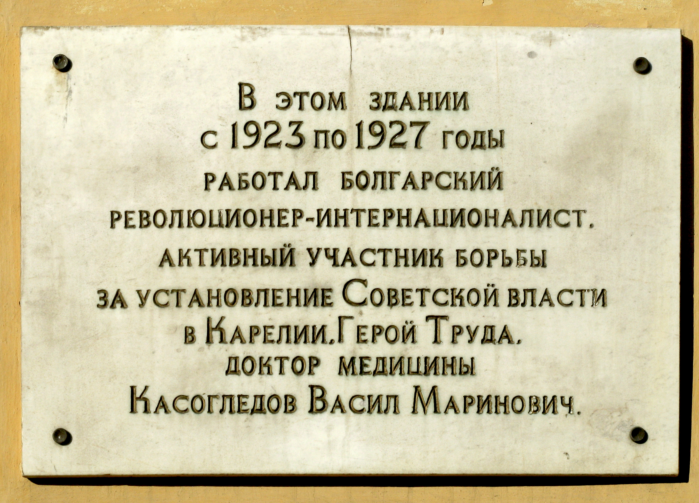 The memorial board devoted to Vasily Kasogledov, Kuybyshev street, building 8.